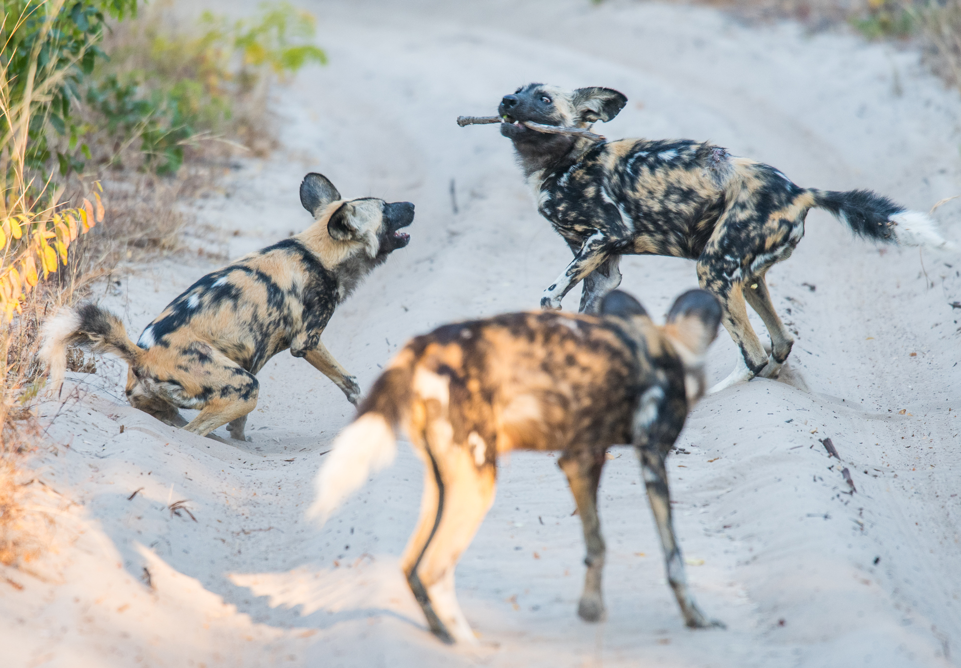 African Wild Dog aka Painted Dog. Endangered species with only around 6,600 individual thought to survive in the wild (according to African Wildlife Foundation). Throughout Africa, wild dogs have been shot and poisoned by farmers who often blame them when a leopard or hyena kills livestock. As human populations expand, leading to agriculture, settlements, and roads, wild dogs are losing the spaces in which they were once able to roam freely. We were fortunate to encounter a pack of around eight of these striking animals on an early morning drive near Hwange National Park, Zimbabwe.